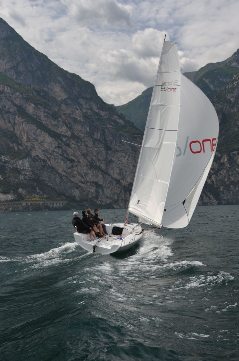 Bavaria B/One sailing with Gennaker